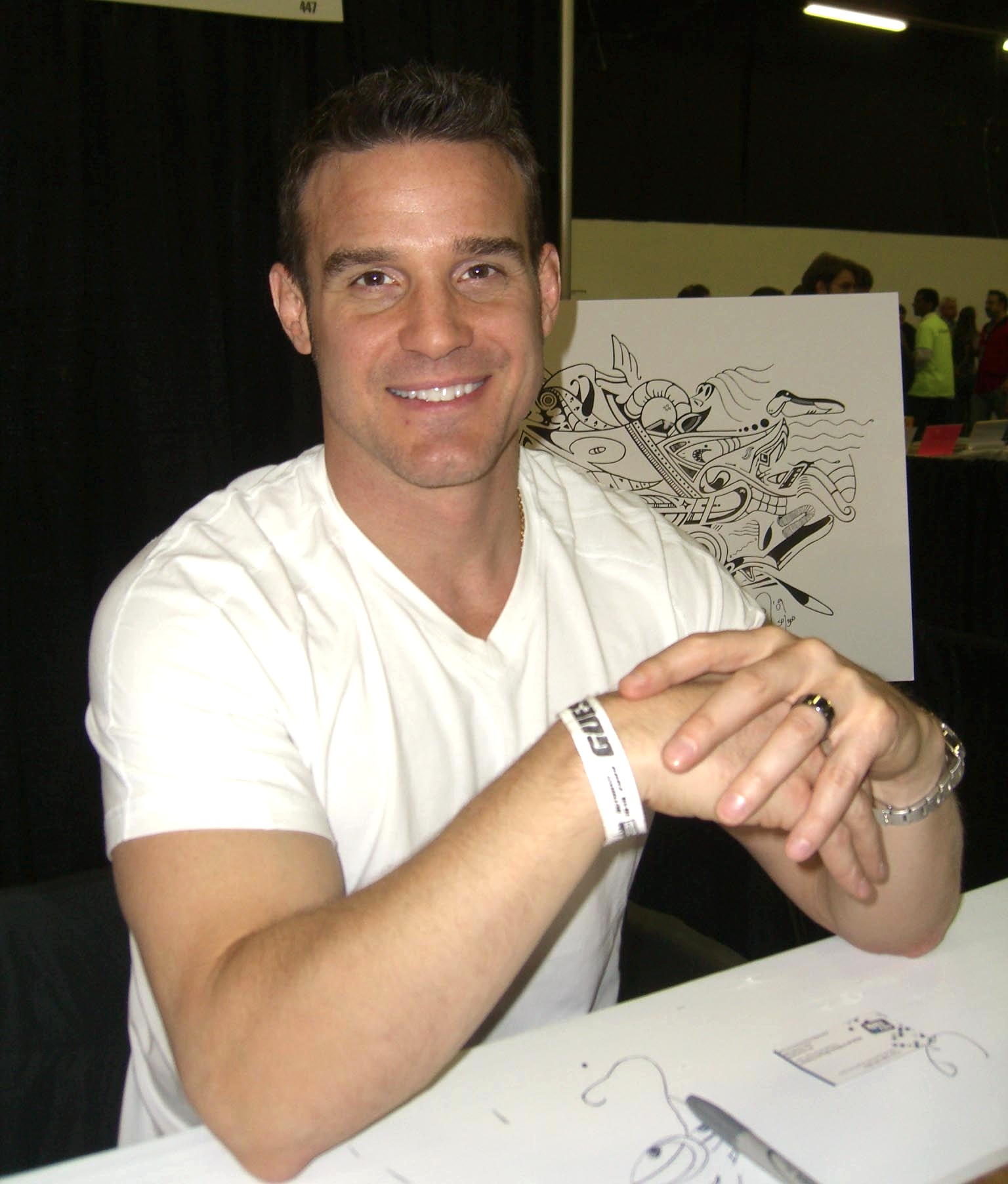 Actor Eddie McClintock at the Big Apple Convention in Manhattan. Photographed by Luigi Novi. This photo may only be used if the photographer is properly credited. (See Licensing information below.)